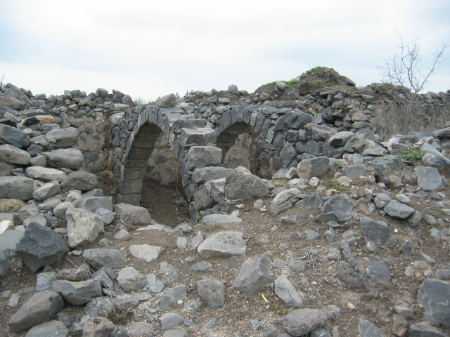 Ein Fiq, Golan Heights.